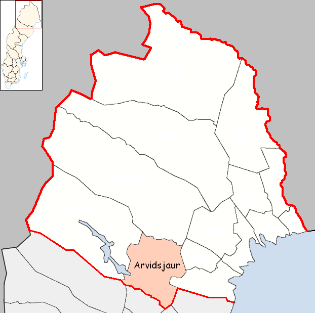 Arvidsjaur Municipality in Norrbotten County Designed by me. Mere outlines are a PD source from